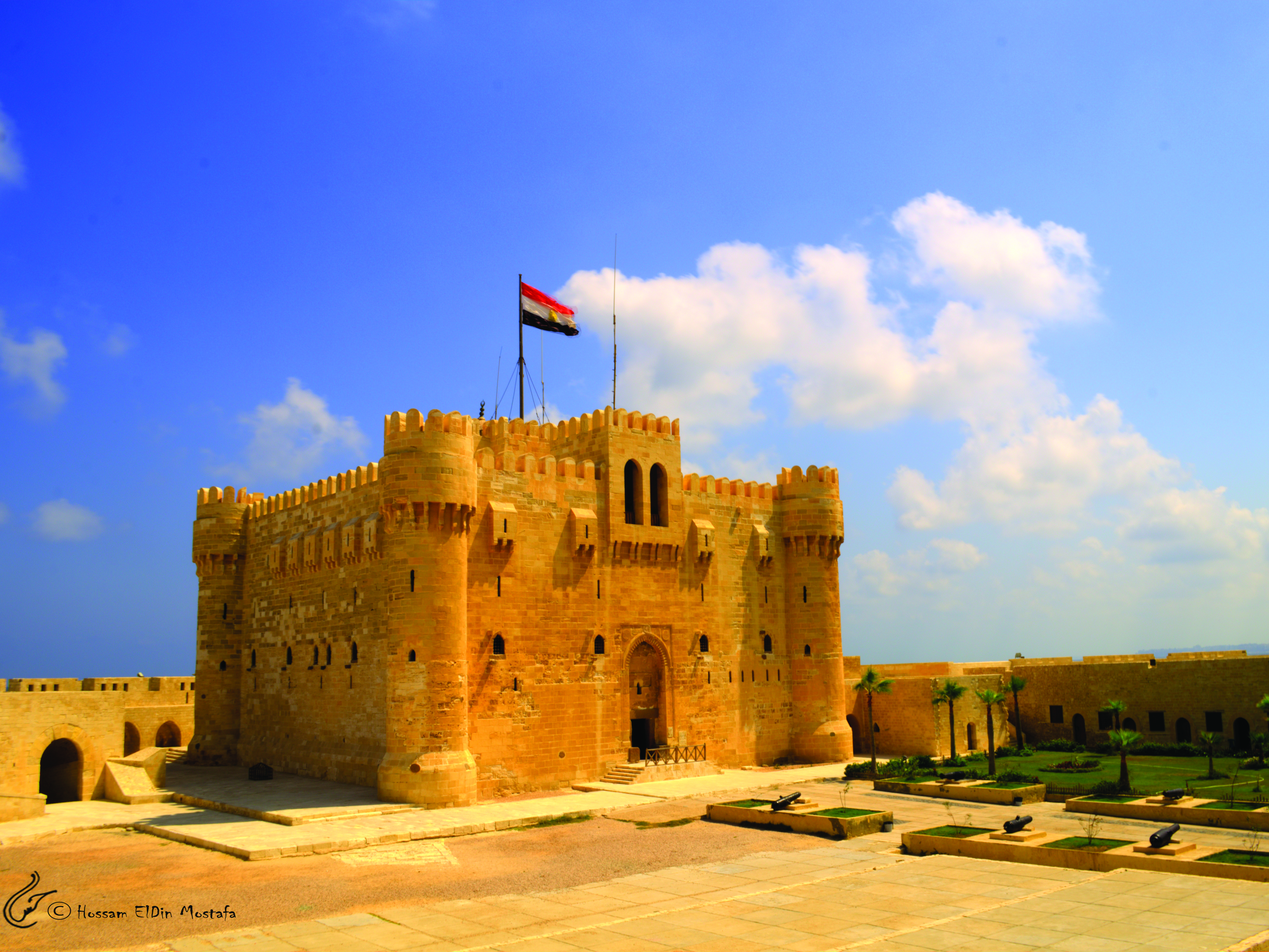 The Citadel of Qaitbay (or the Fort of Qaitbay) (Arabic: قلعة قايتباي) is a 15th century defensive fortress located on the Mediterranean sea coast, which built upon/from the ruins of the Lighthouse of Alexandria, in Alexandria, Egypt. It was established in 1477 AD by Sultan Al-Ashraf Sayf al-Din Qa'it Bay. The Citadel is situated on the eastern side of the northern tip of Pharos Island at the mouth of the Eastern Harbour